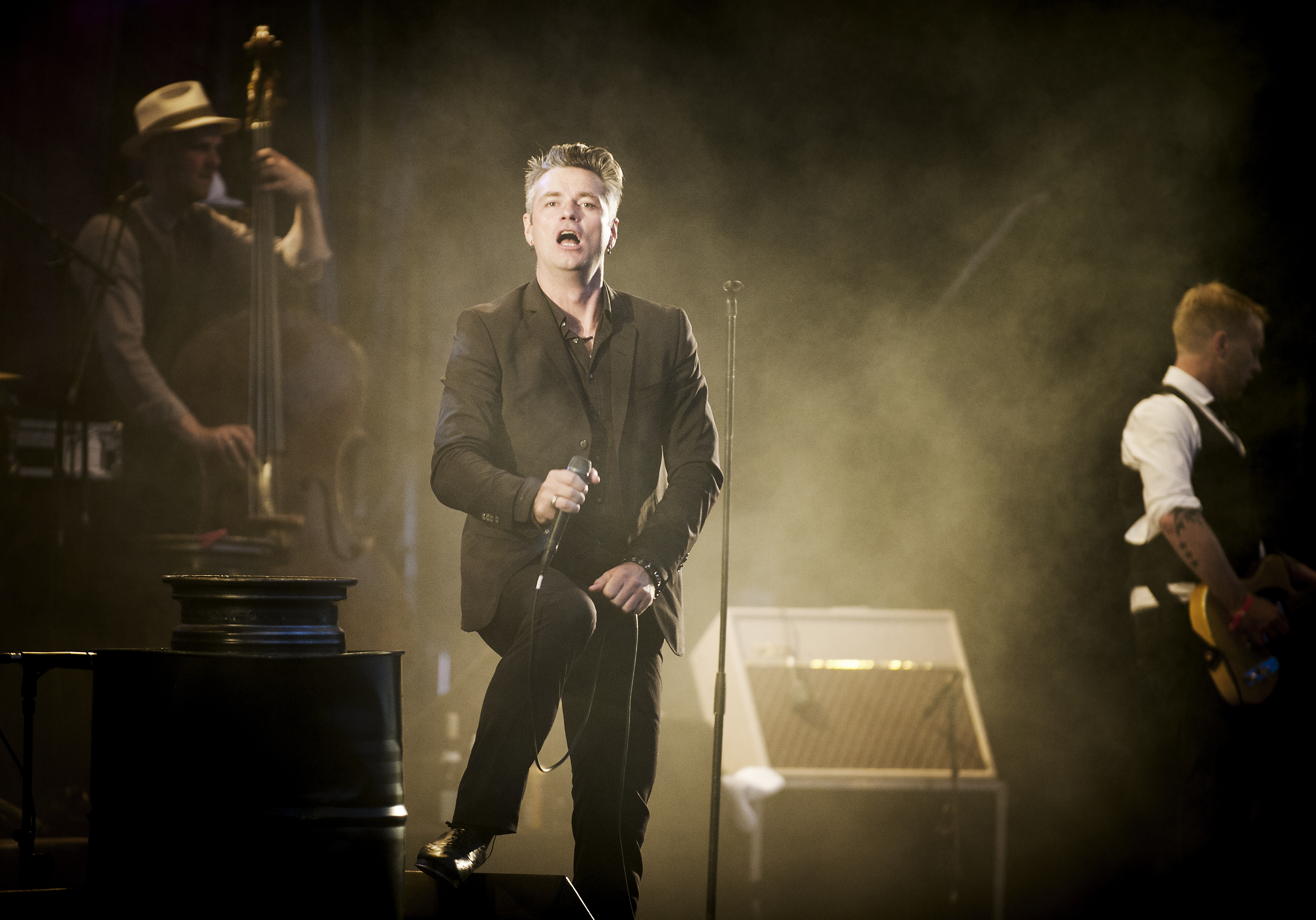 Kaizers Orchestra playing Buktafestivalen 2013 in Tromsø, Norway. Foto: Øistein Norum Monsen